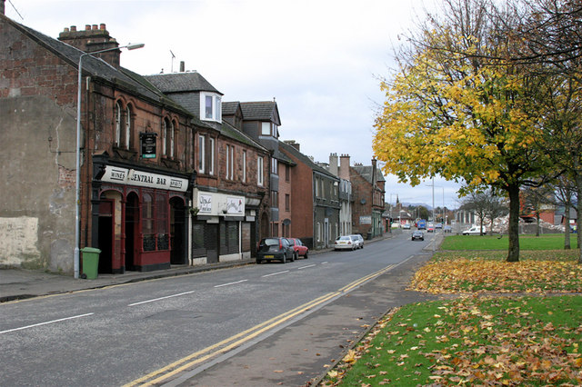 Central Bar Renton Central Bar Renton some of the few original shops remaining in main street Renton to the right 1960s shops being demolished